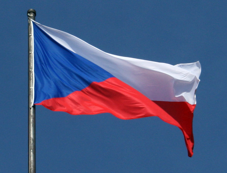 Flag of the Czech Republic 2007 Prague